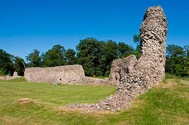 Berkhamsted Castle Author Robert Stainforth